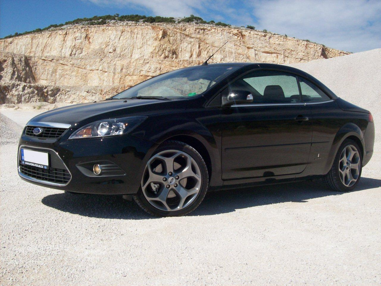 ford focus CC